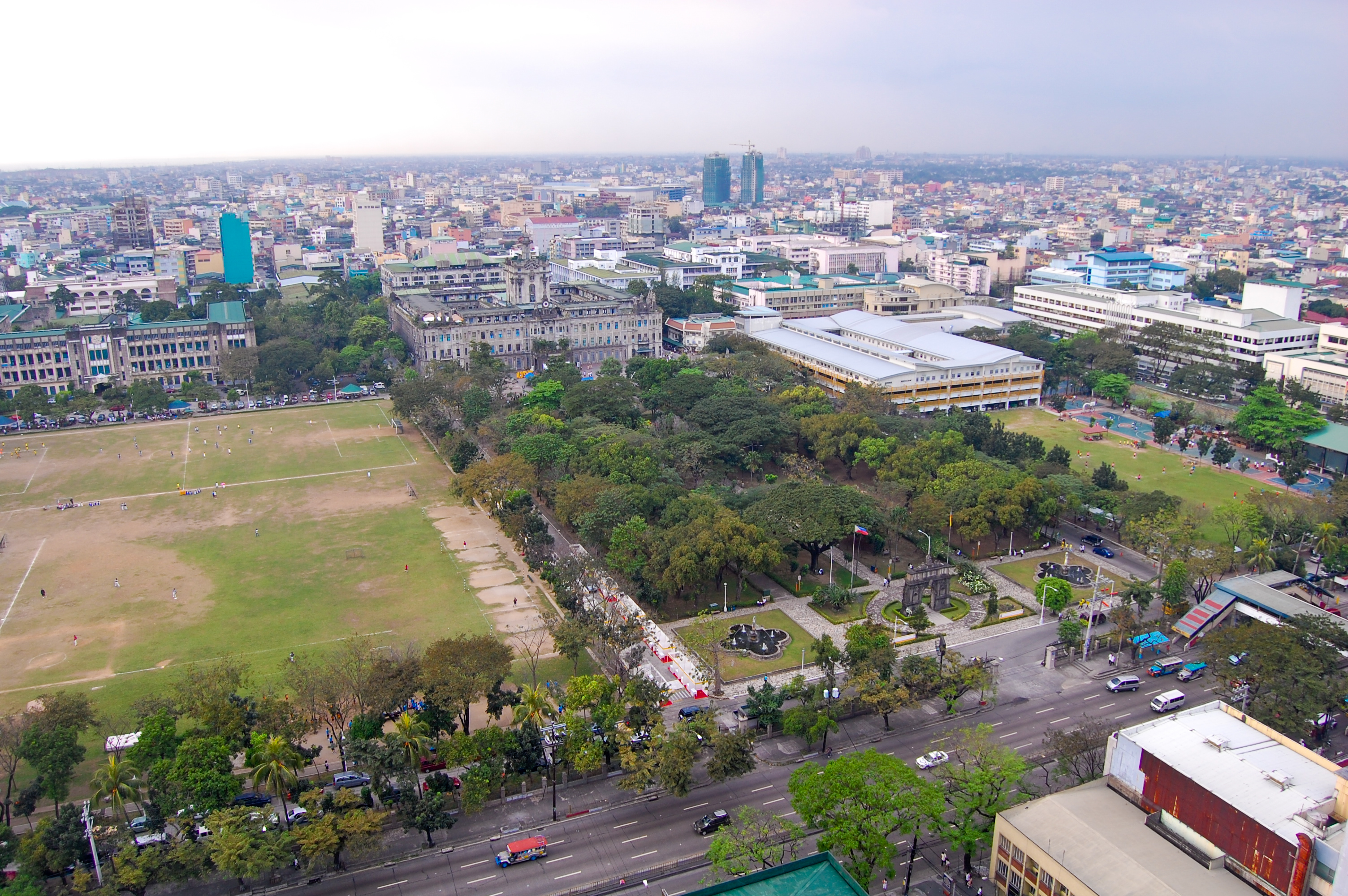 Whole University of Santo Tomas Campus